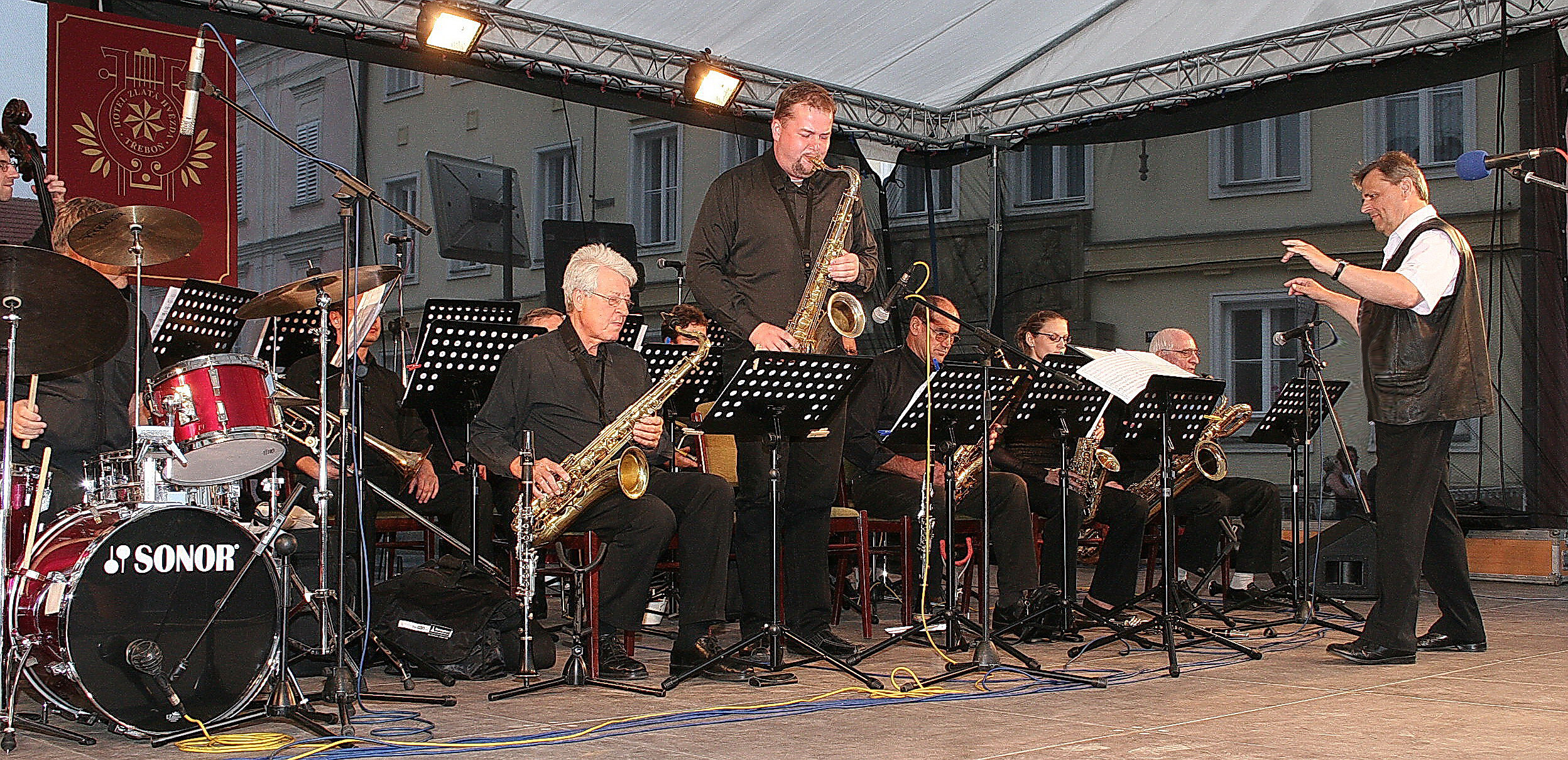 Czech Radio Big Band, and Václav Kozel